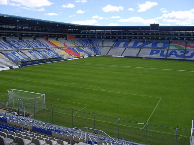 Interior del Estadio Hidalgo "El Huracan" de Pachuca